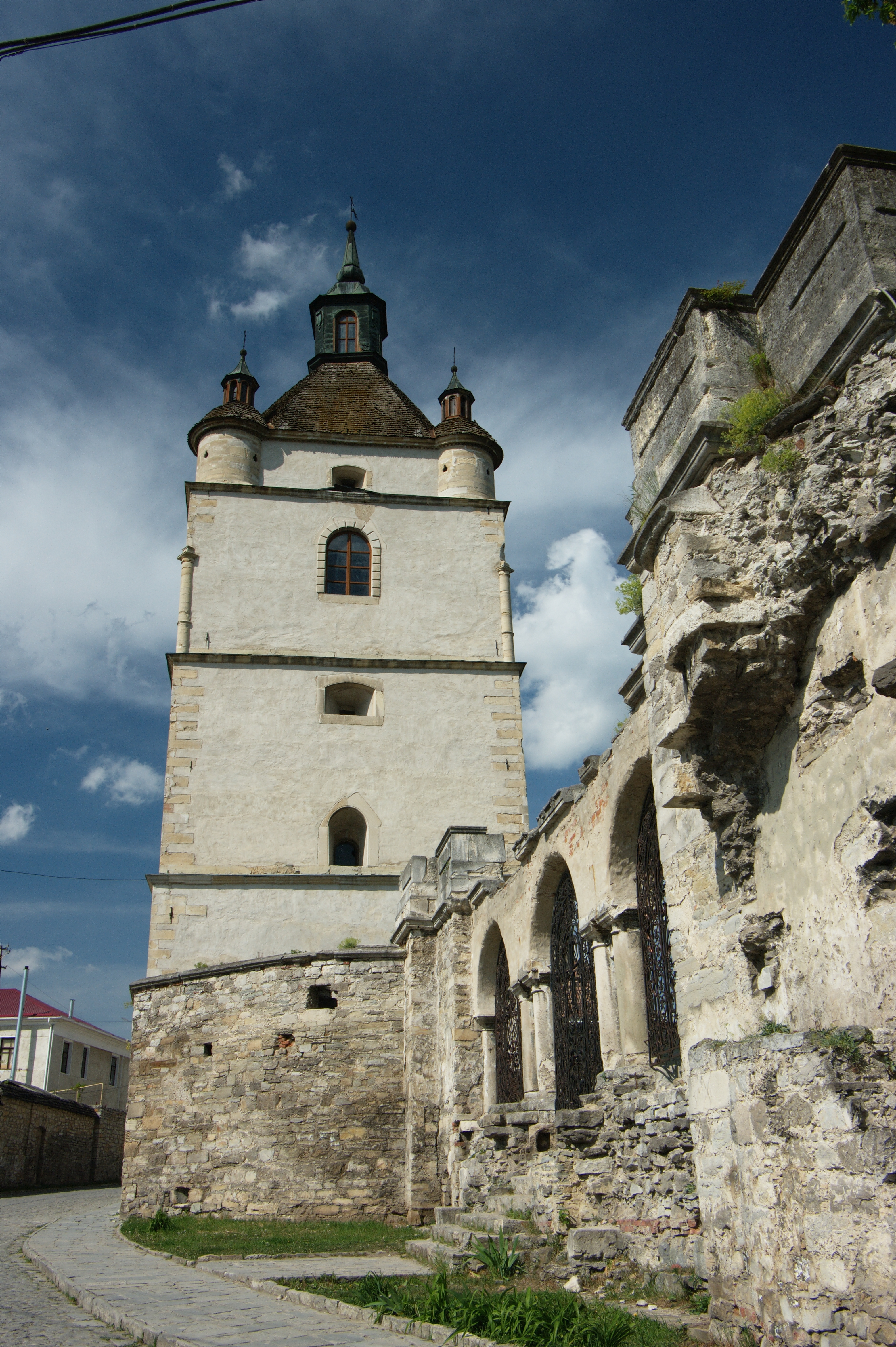 Armenian Bell Tower, Kamianets-Podilskyi